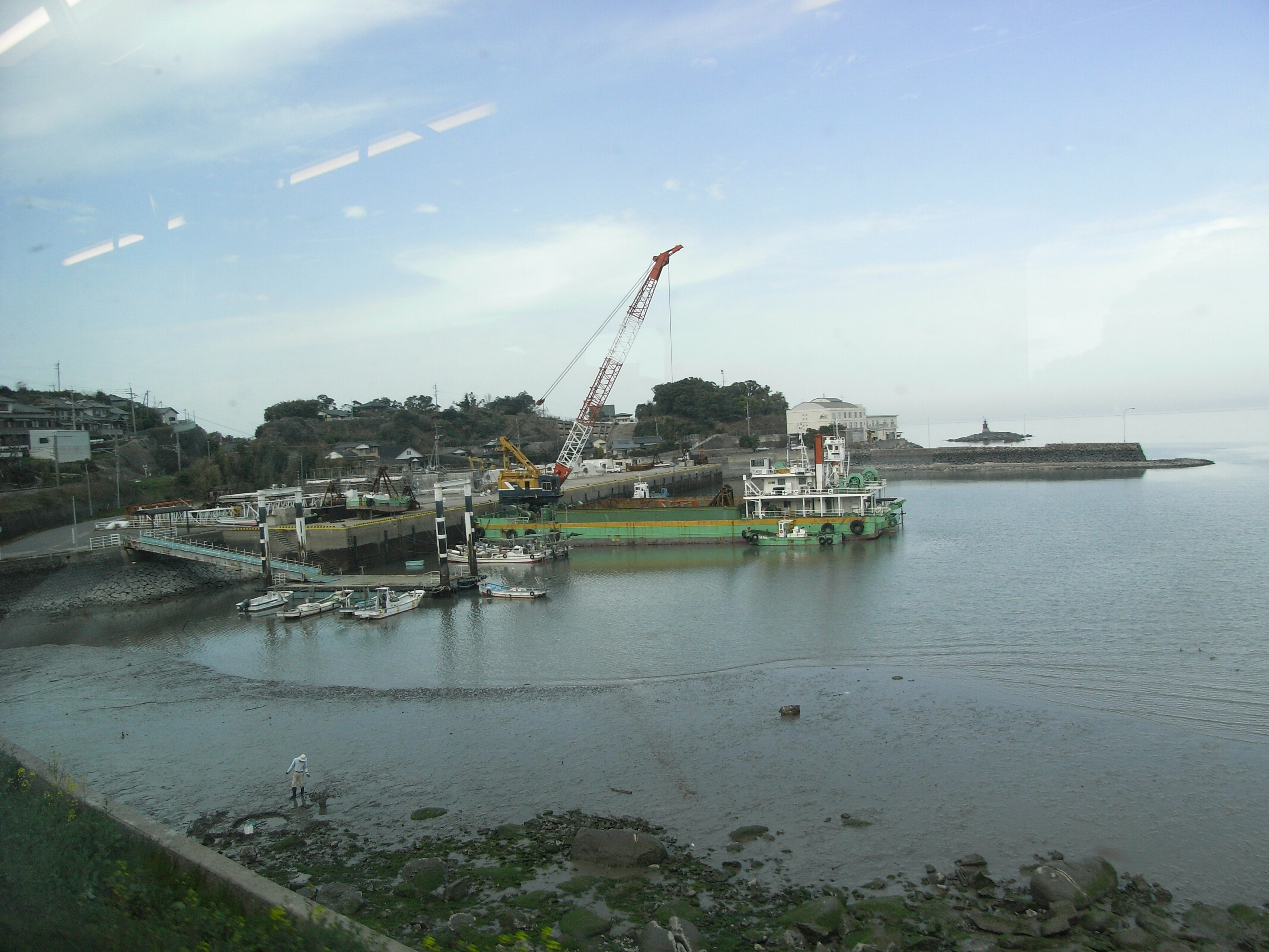 Ariake Sea (有明海) from the Flickr